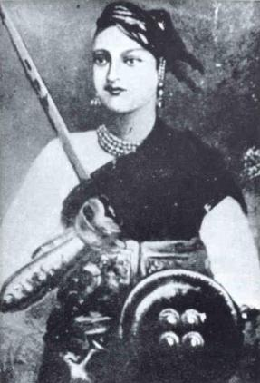 Portrait of Lakshmibai, the Ranee of Jhansi, (1850s or 1860s). Probably done after her death (June 1858): she wears a valuable pearl necklace and a cavalrywoman's uniform